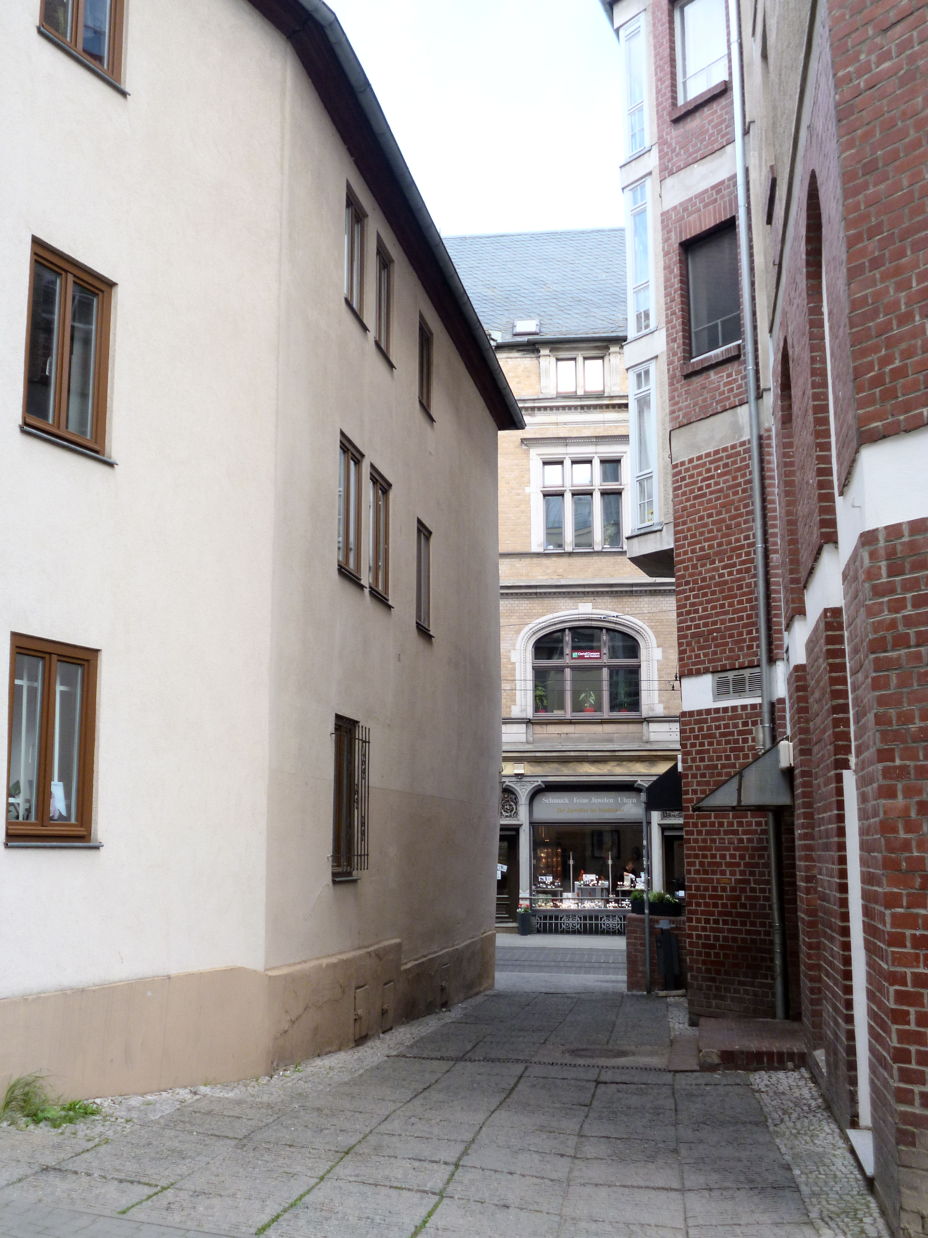 Lane Bechershof, view to the Schmeerstrasse, in Halle (Saale)